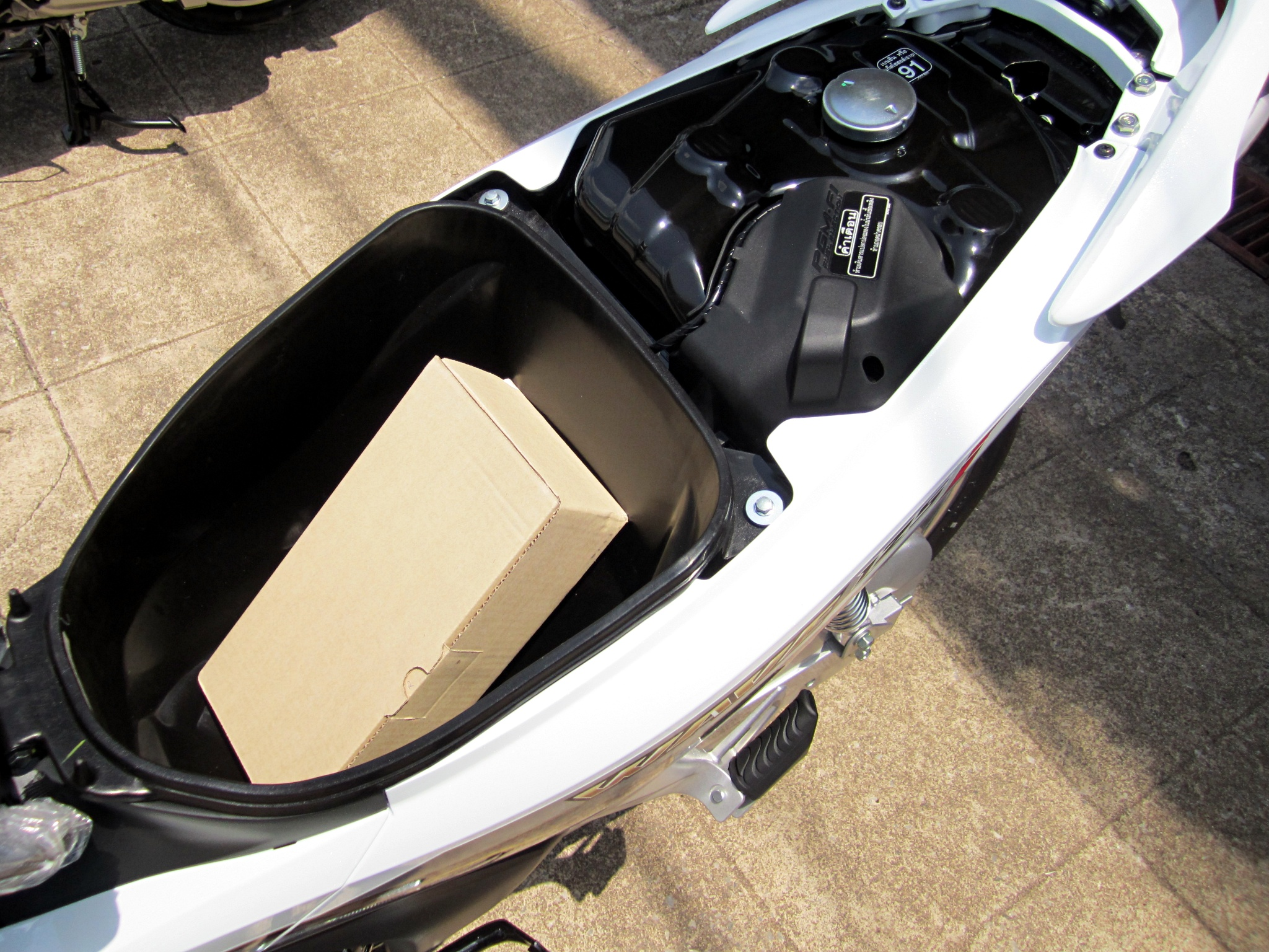 Model 2012 Honda Wave 125i features an enlarged underseat storage compartment.